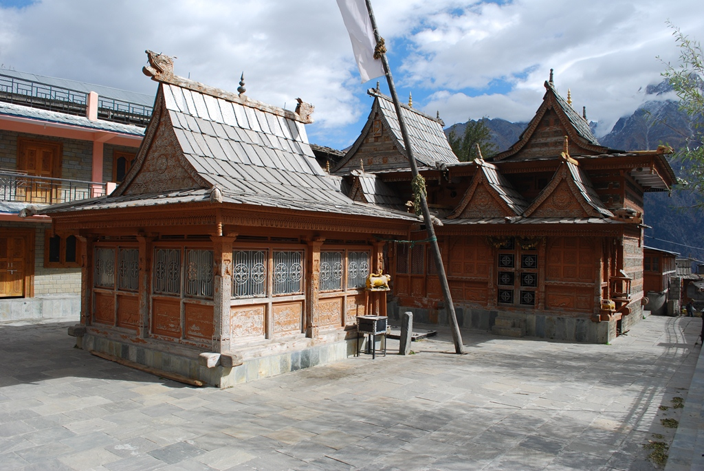 Hindu Temple at Kalpa, Himachal Pradesh